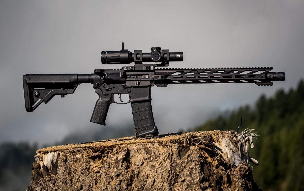 An example of an M-LOK free float handguard. Notice how the handguard floats around the barrel and only contacts the rifle at one point (on the barrel nut by the upper). This 15 in (381 mm) HWK M-LOK handguard is made by STNGR USA and uses the M-LOK mounting system.